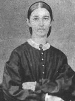 Photo of Harriett Wight, wife of Lyman Wight was an early leader in the Latter Day Saint movement and member of the Quorum of the Twelve Apostles.